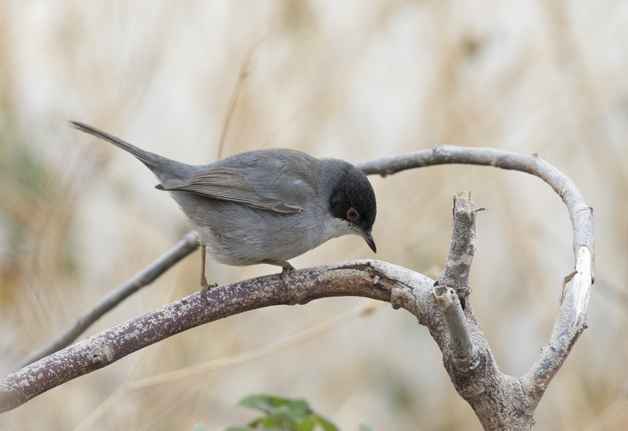 A male Sardinian warbler (Sylvia melanocephala) in Yemişkumu - Erdemli, Mersin - Turkey.